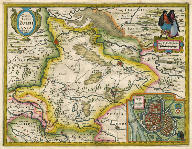 County of Zutphen 1634